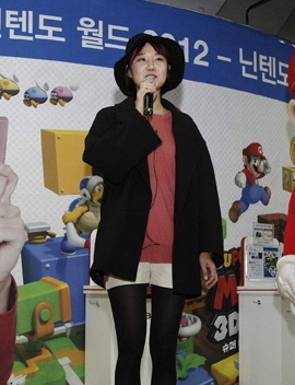 Gong Hyo-jin in April 2012